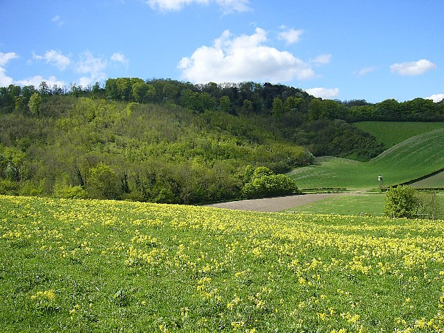 Cowslips near Heyshott. Field of cowslips on north facing slope of South Downs, south east of Manor Farm, Heyshott